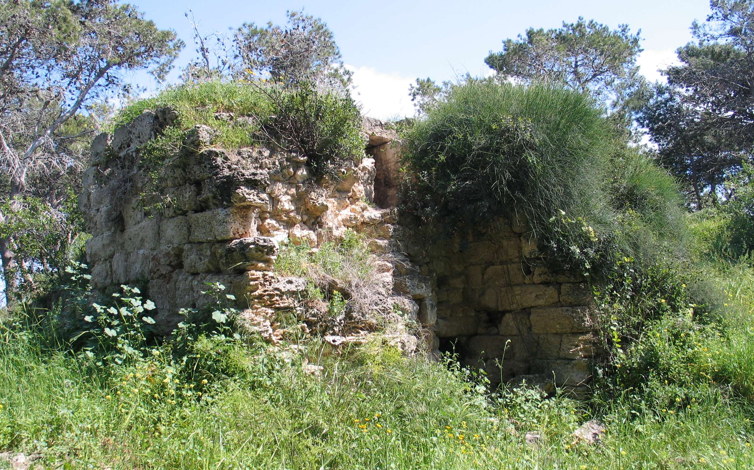 Khirbet Rushmiya (Rosh Maya, Rosh Mayim), Haifa, Israel.